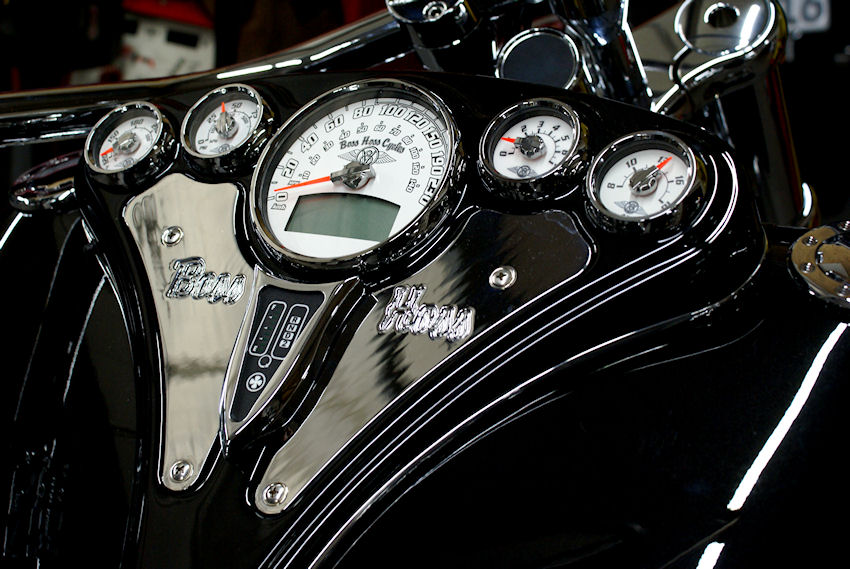 Boss Hoss